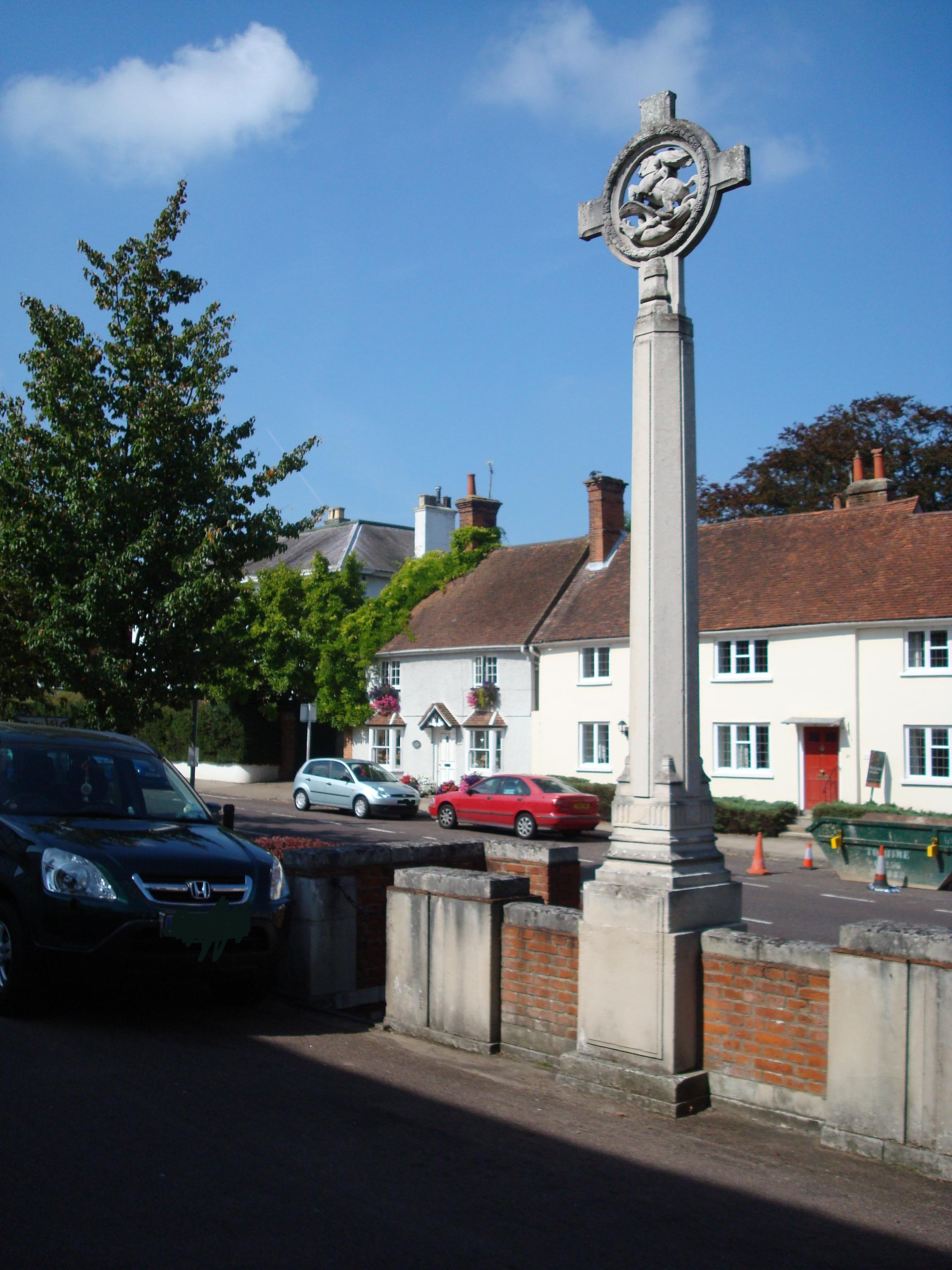 The war memorial in Odiham - a historic village and large civil parish in the Hart district of Hampshire, England. S Knights, Oct 2007, my pic